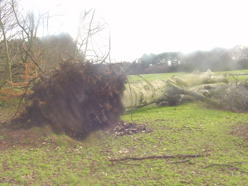 I took this photograph. Fallen tree in Wythenshawe Park, Manchester, Britain.